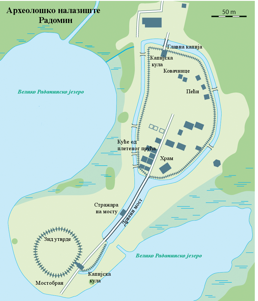 Map of the "Archaeological Open-air museum Groß Raden"